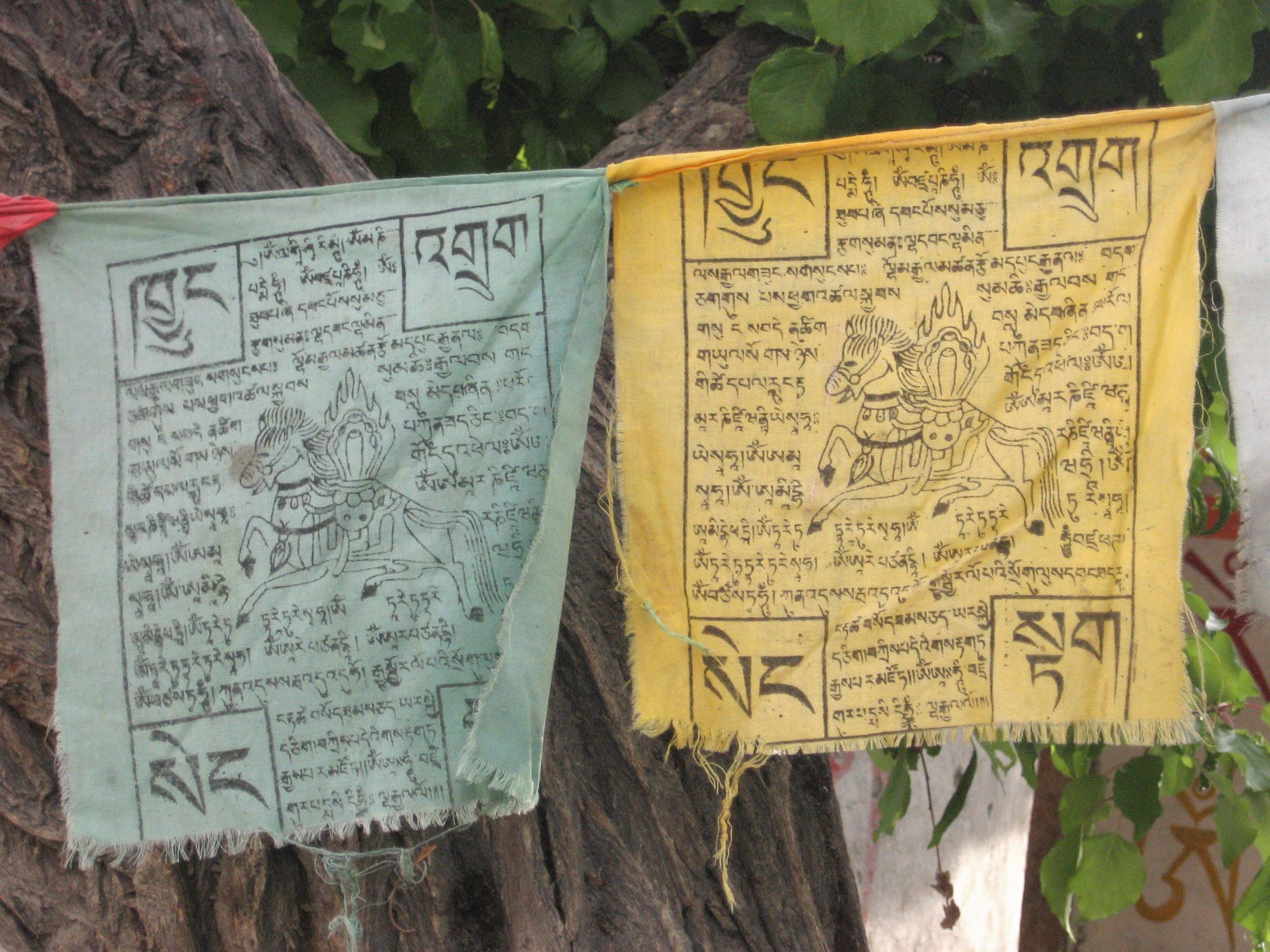 Close up of Lungta style prayer flag, Ladakh